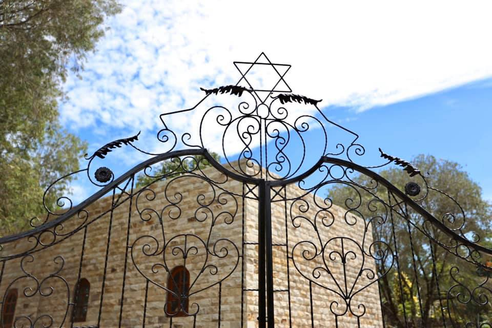 The Exterior of Synagogue in Indonesia